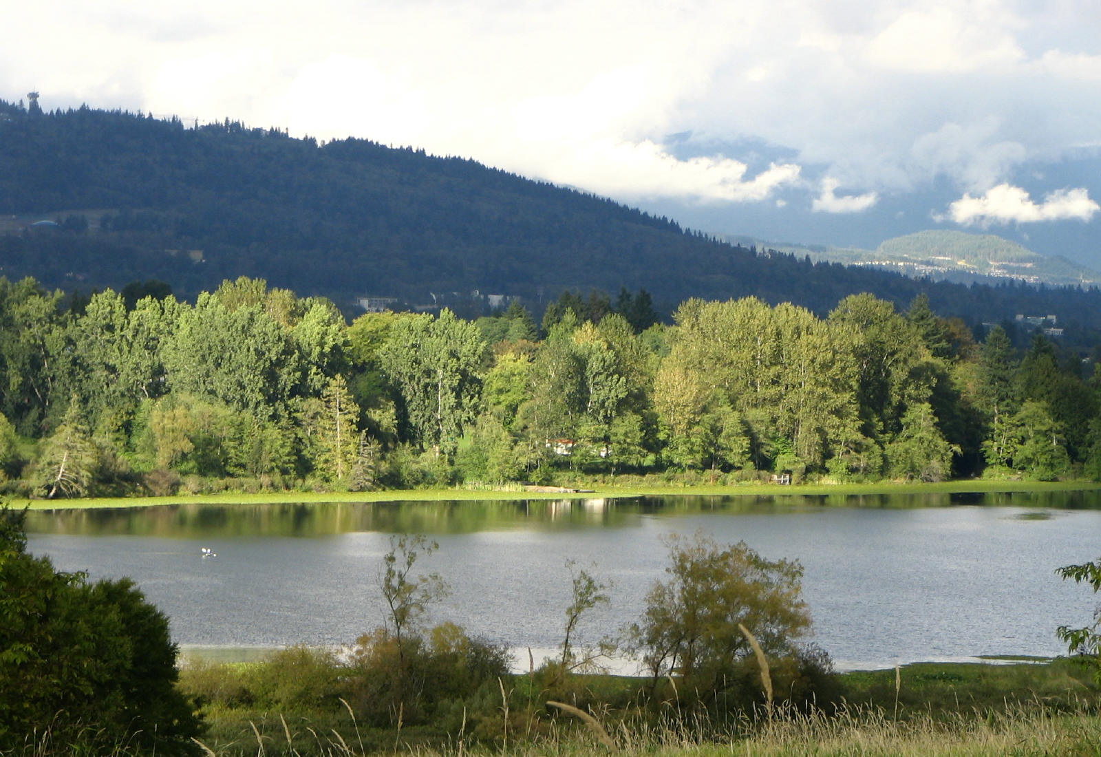 This image was created by me, Flying Penguin of Pacific Spirit Photography ( of Burnaby, British Columbia, Canada.